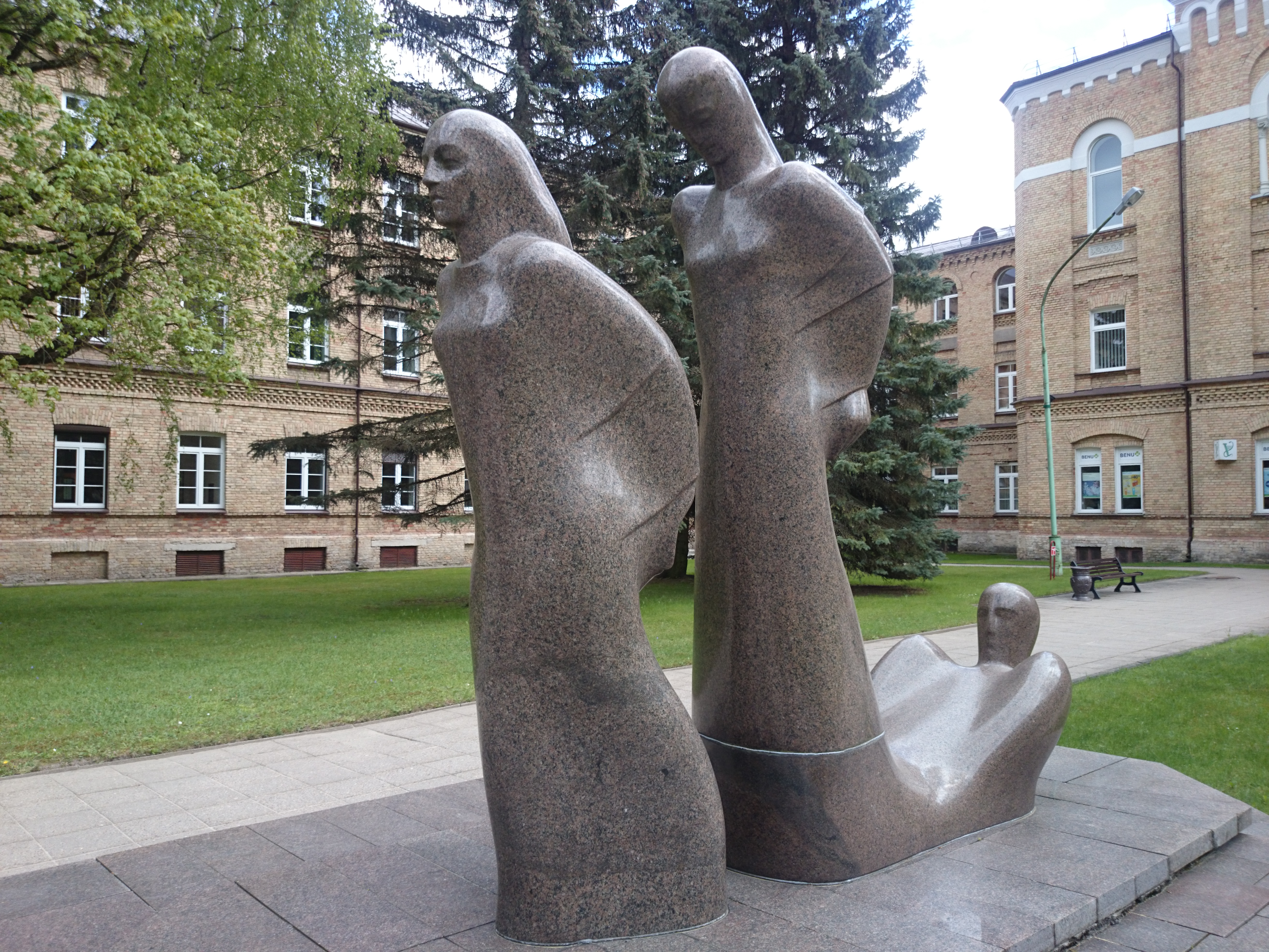 Naujoji Vilnia Hospital